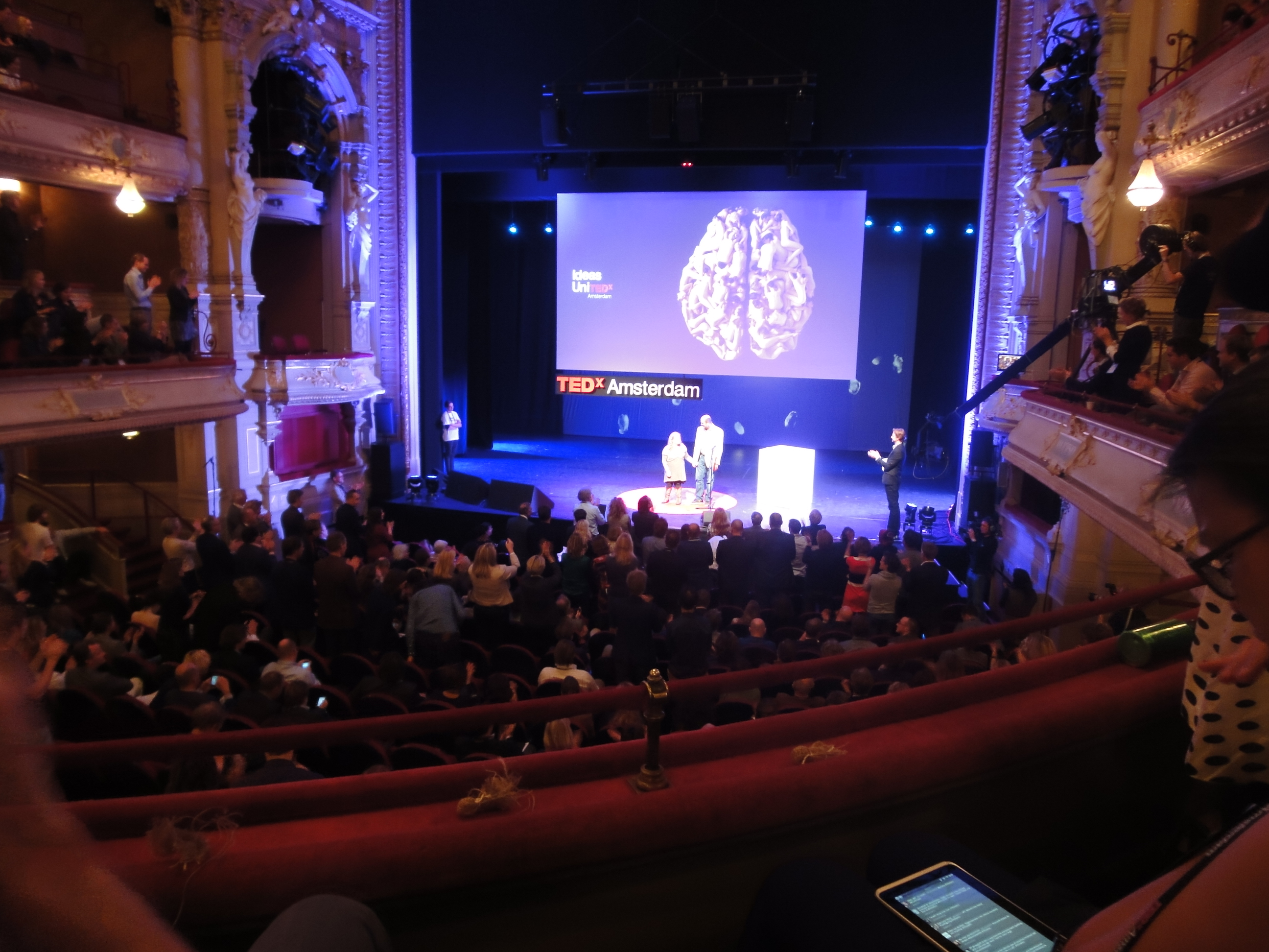 Pieter van de Rest with his daughter Pien. On the screen the logo is shaped by Het Nationale Ballet. On the side you can see the presenter, Jim Stolze